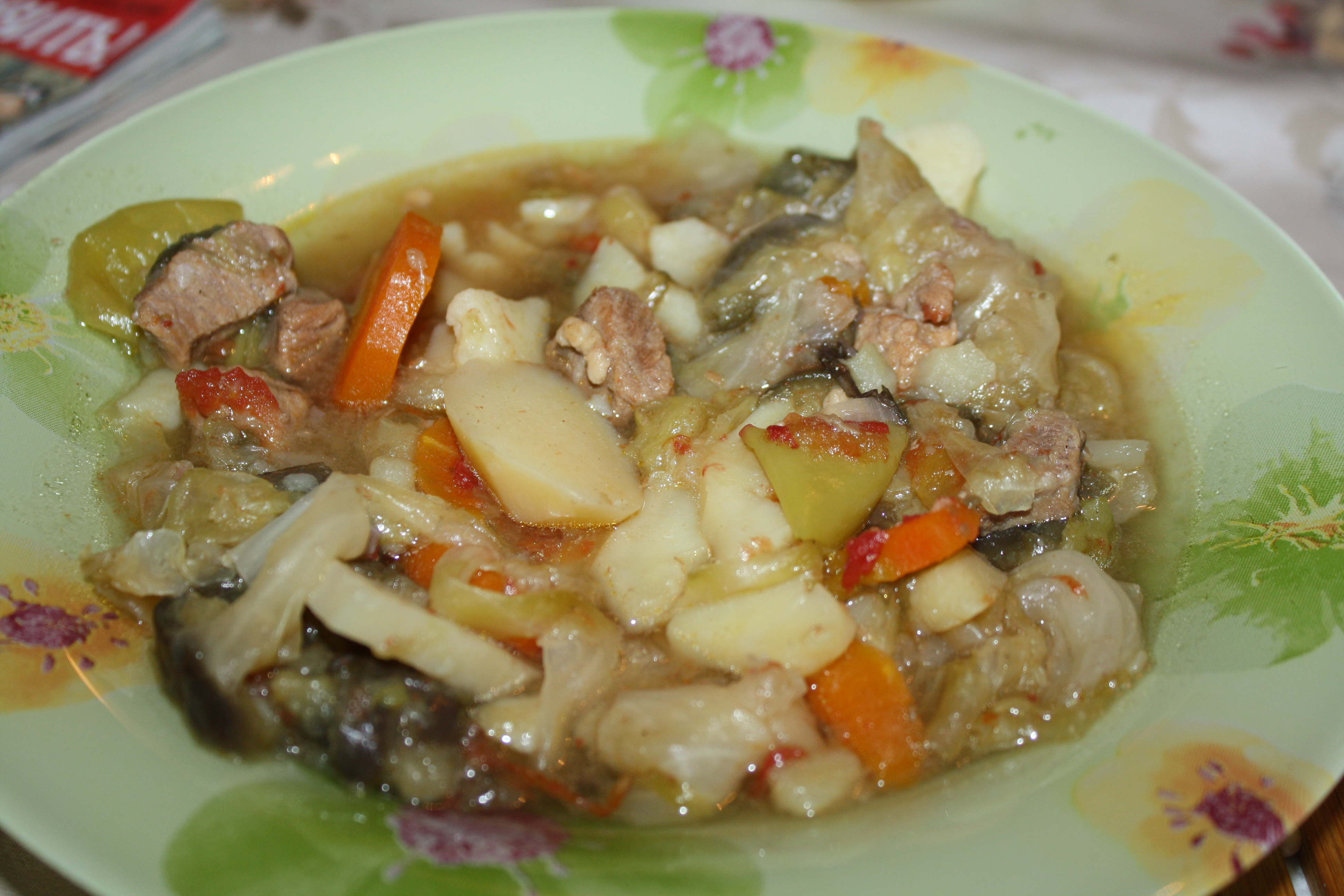 Azu, the traditional Tatar veal meal